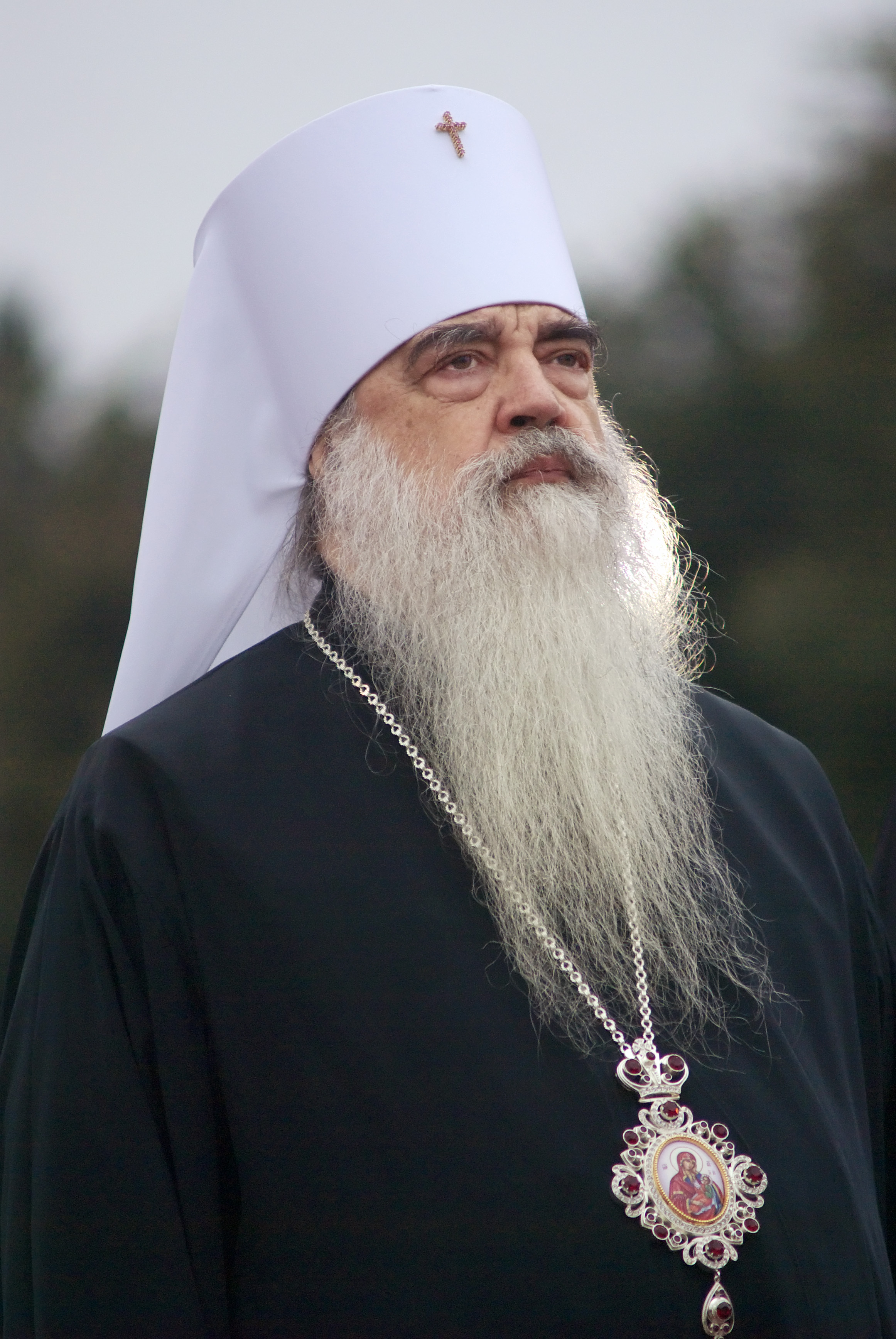 Filaret, Metropolitan of Minsk and Slutsk